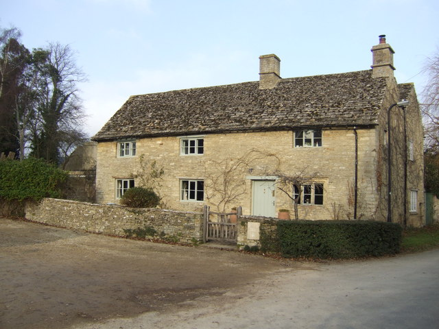 The Old Inn, Black Bourton, Oxfordshire: built in the 17th century, enlarged in the 18th, 19th and 20th centuries. Formerly a public house; now a private home